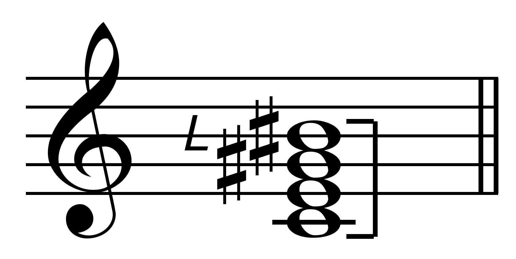 Septimal kleisma: two major thirds and one septimal minor third.